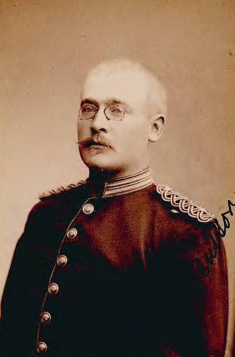 Svensson, Knut Jakob Theodor F. 1863. D. 1898. Löjtnant. Capitaine commandant i Kongostatens armé. I Kongostatens tjänst 1893-98. Dalregementet. Bild: 1888 (Sv. Off. förb. saml.)